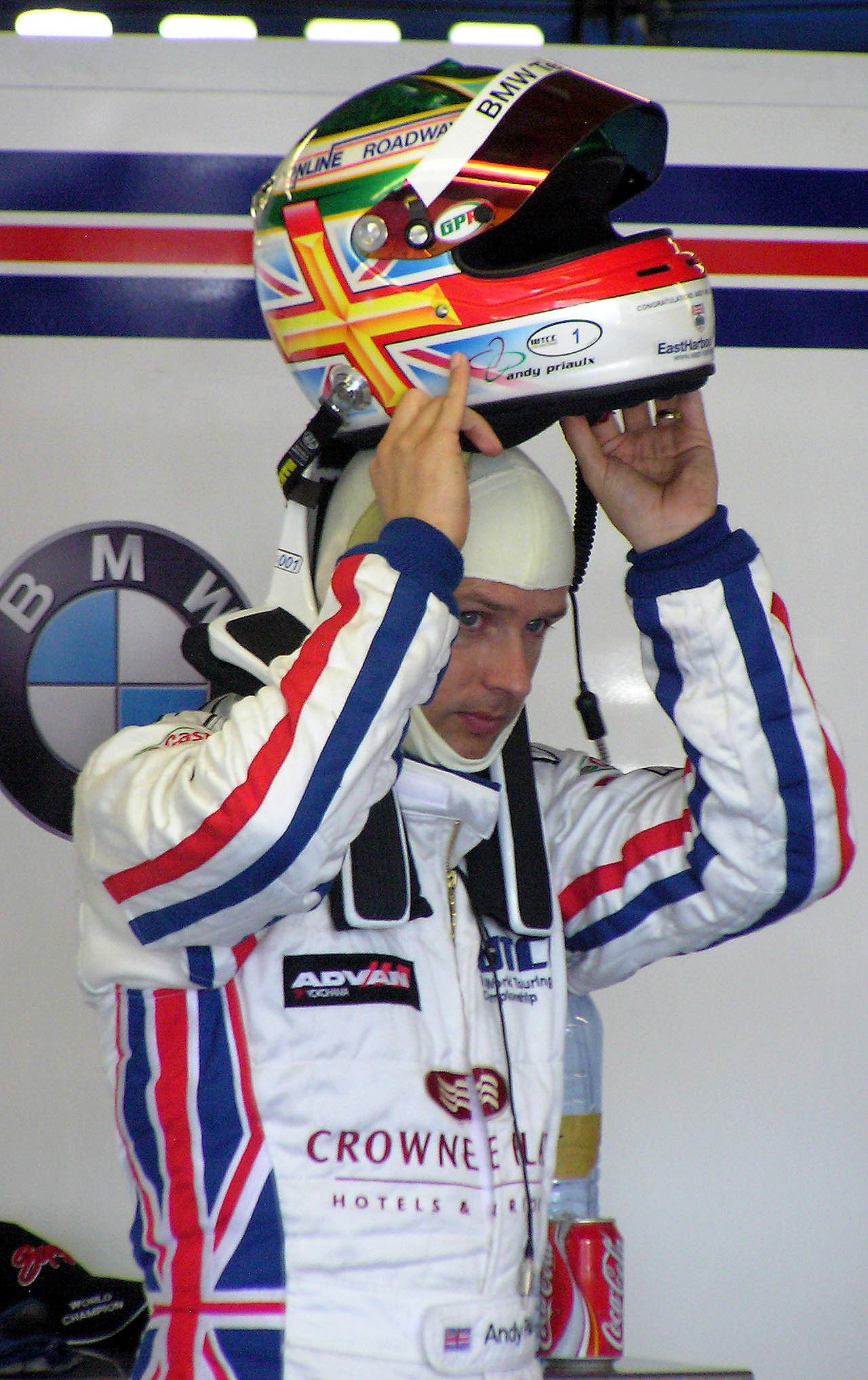 Andy Priaulx (BMW Team UK), World Touring Car Championship double-champion (2005 - 2006), preparing to first qualify session of the 2007 season.